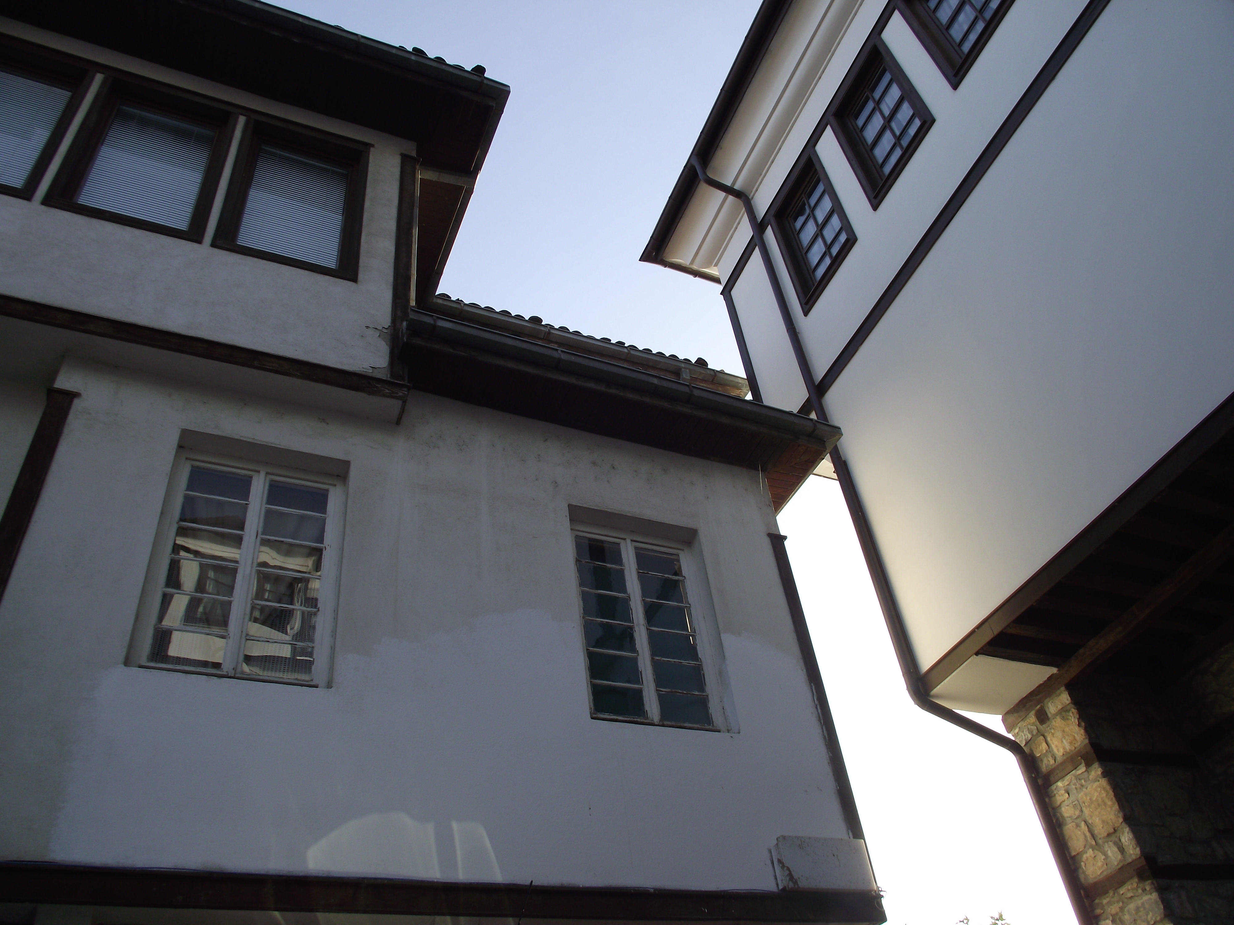 Куќата на РобевциCodeB05